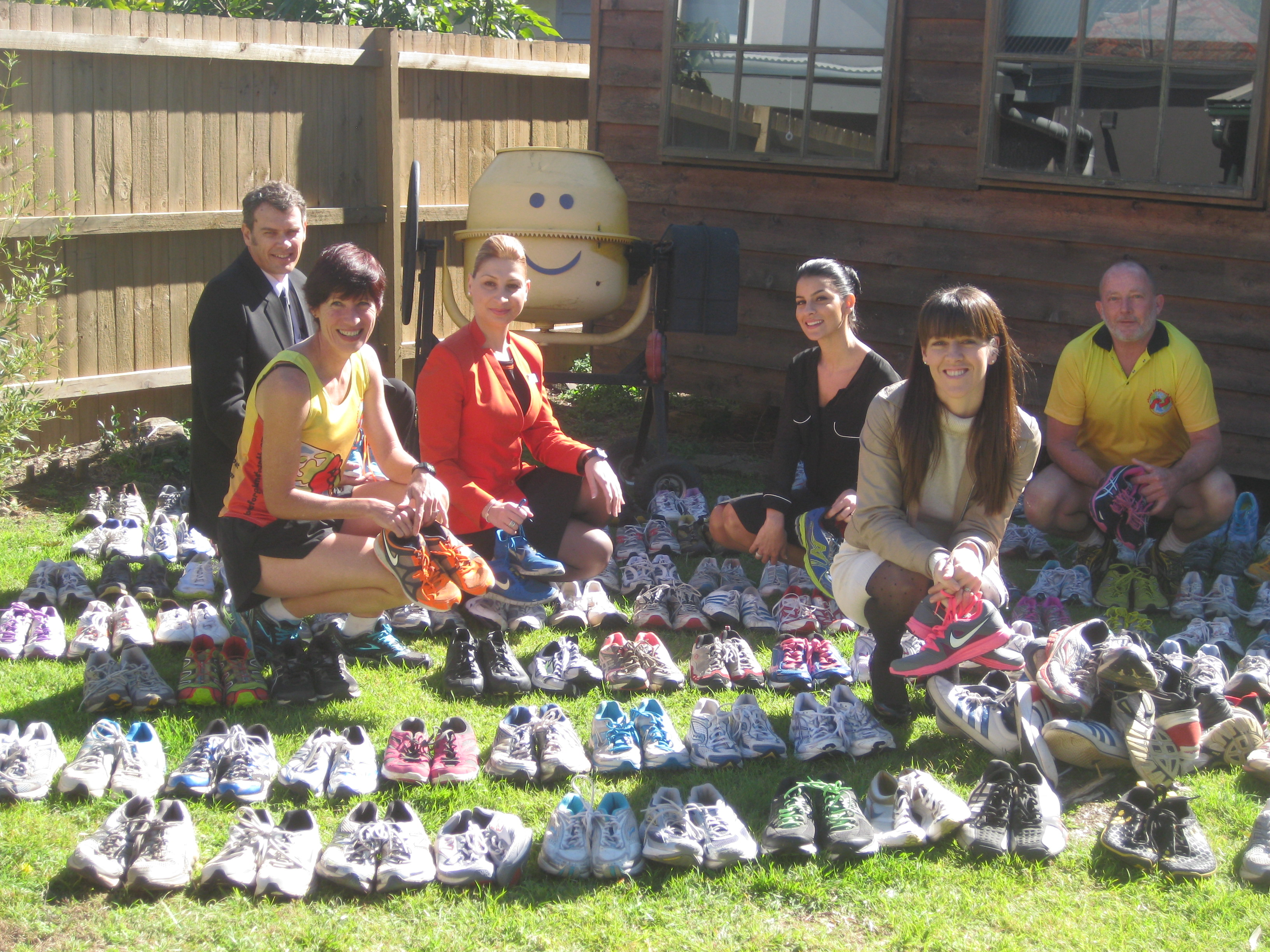 Flickr description L-R: Pilot Andrew Strauss, Shoes for Planet Earth co-founder Viv Kartsounis, Customer Service Officer Francesca Deidda, Passenger Service Manager Yasmin Chidiac, Gorgi Coghlan and Shoes for Planet Earth co-founder Nick Drayton.